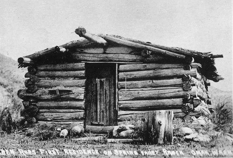 A cabin built by the founder of Omak, Ben Ross.